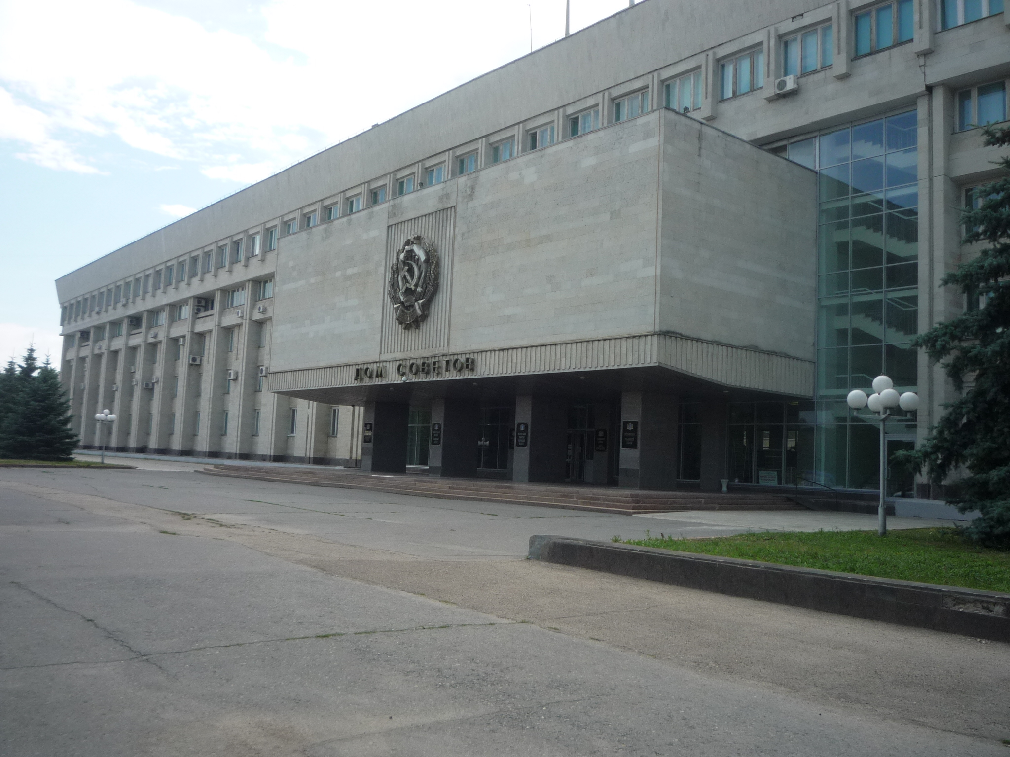 Dom Sovietov "House of Soviets" the seat of the Legislative Assembly of Ulyanovsk Oblast, Radischeva st 1